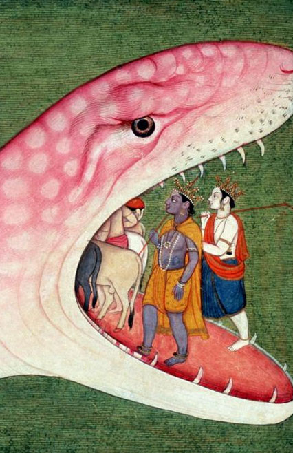 Painting of Aghasura from the 1700's.